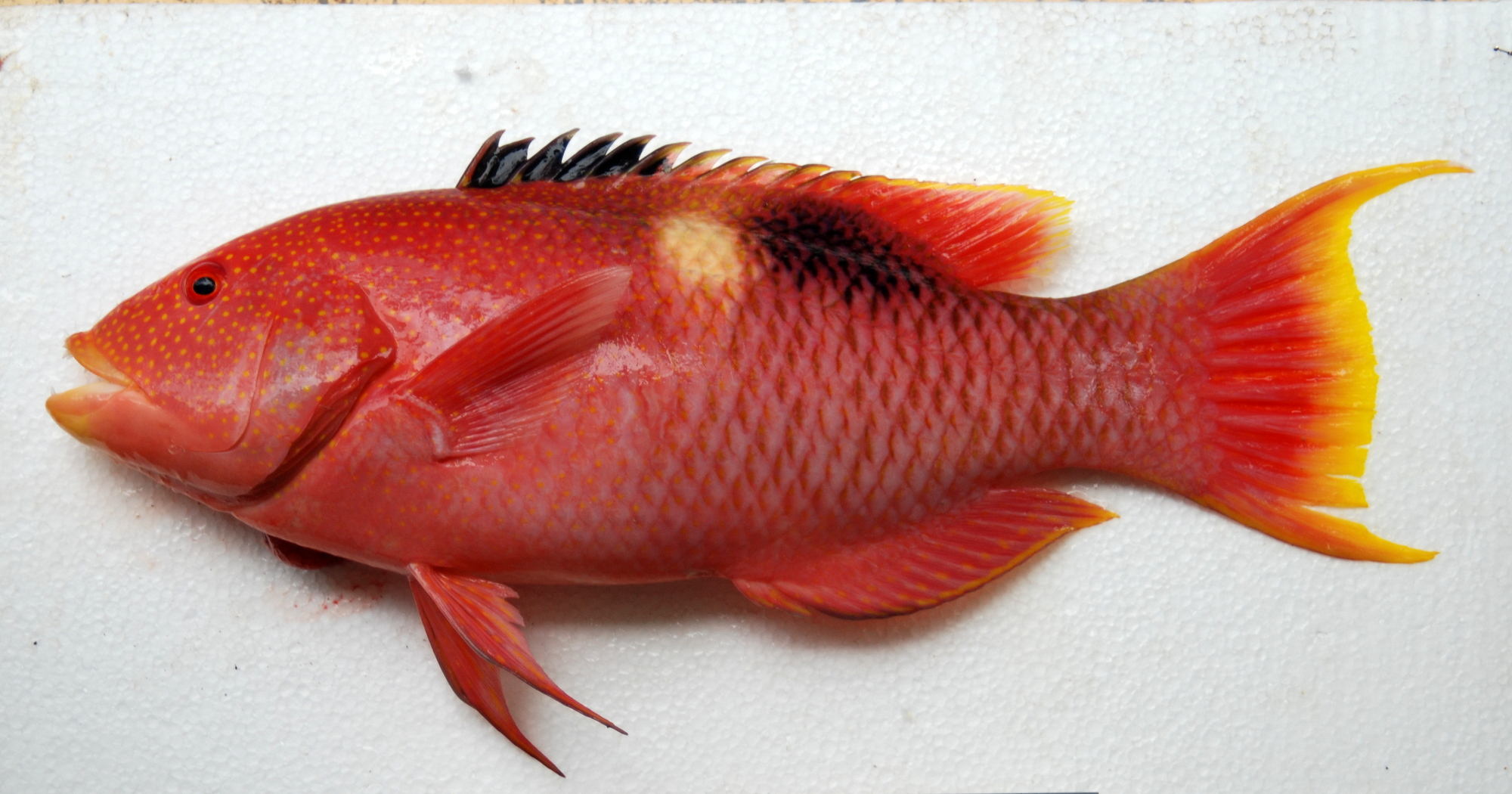 Bodianus perditio. Collected off Nouméa, New Caledonia